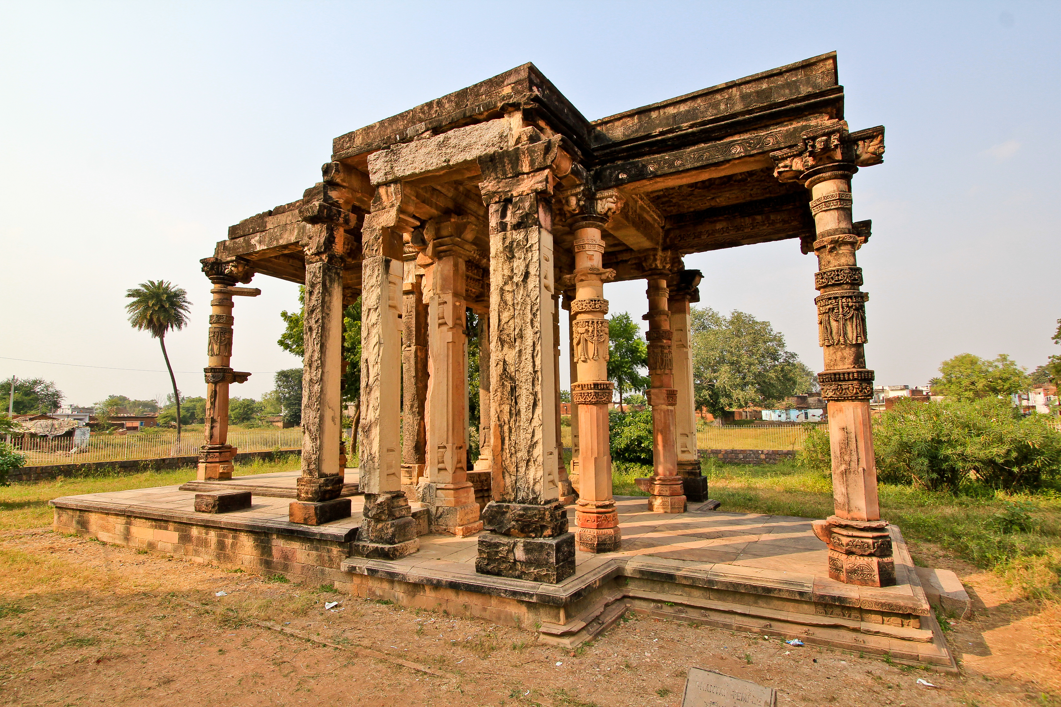 Ghantai Temple, one of the temple ruins at Khajuraho group of monuments